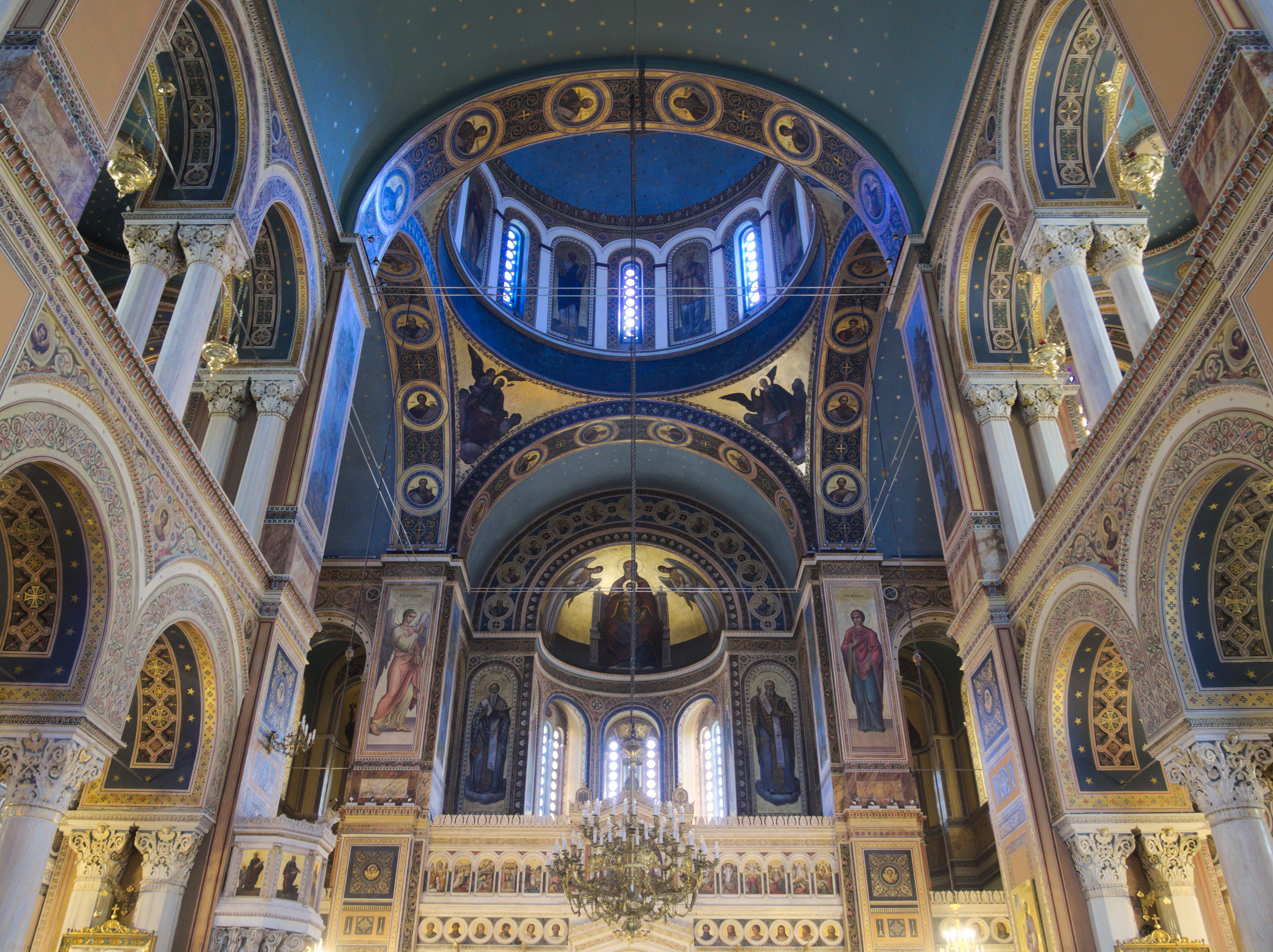 The interior of the Metropolis of Athens after the renovation.